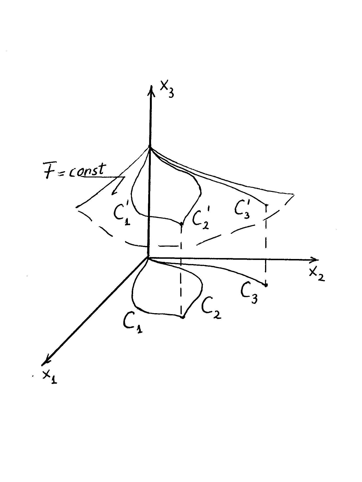 Graphical description of the notion of integrability for differential forms